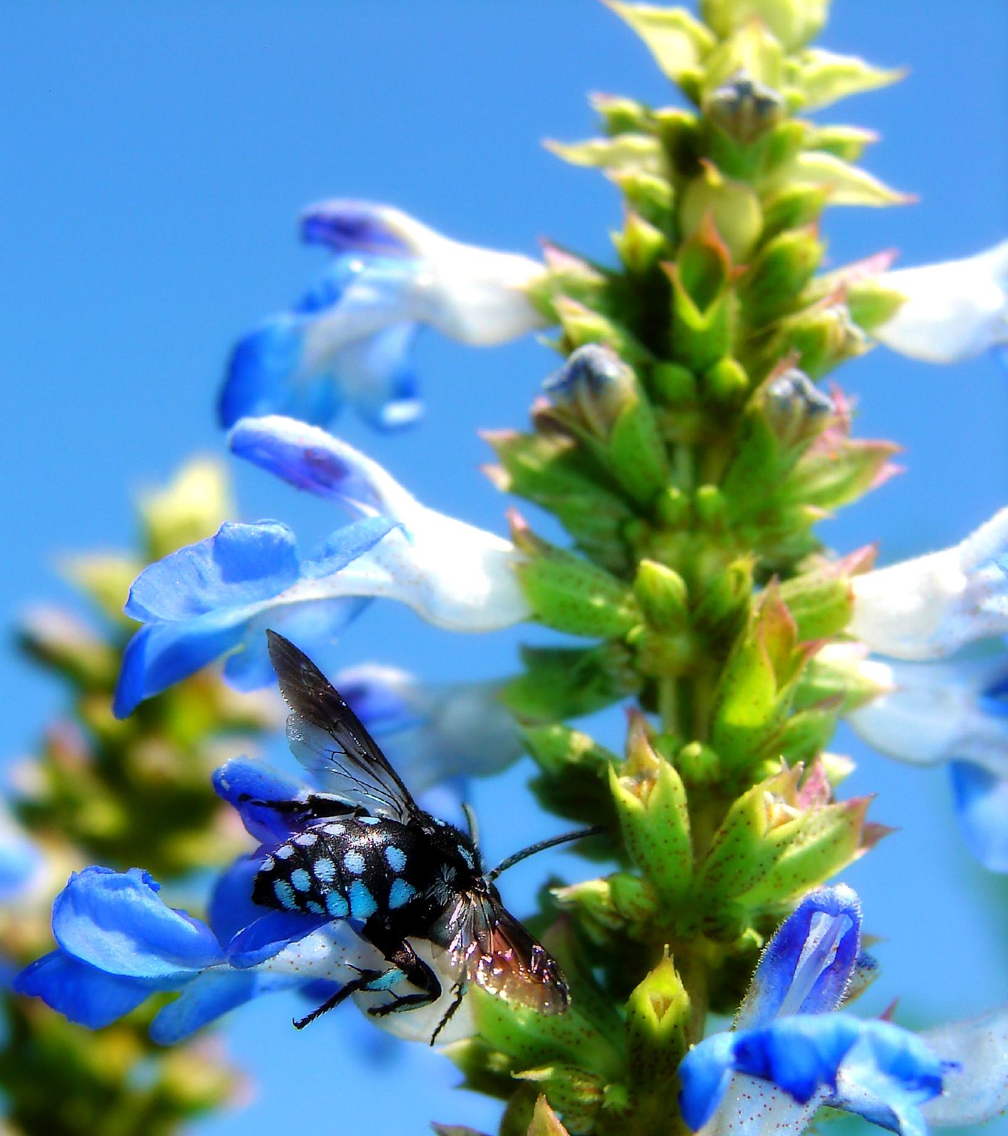 A picture of a Chequered Cuckoo Bee (Thyreus caeruleopunctatus) on Bog sage. Lots of blues. 'Blues' On Black